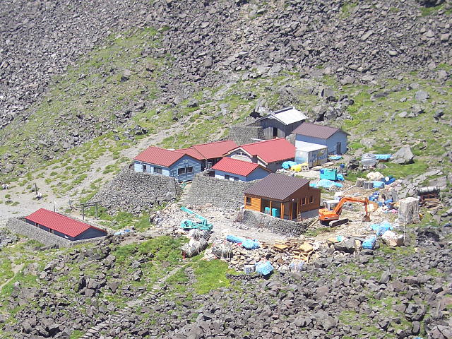 Main shrine of summit, Chokaisan Ōmonoimi jinja